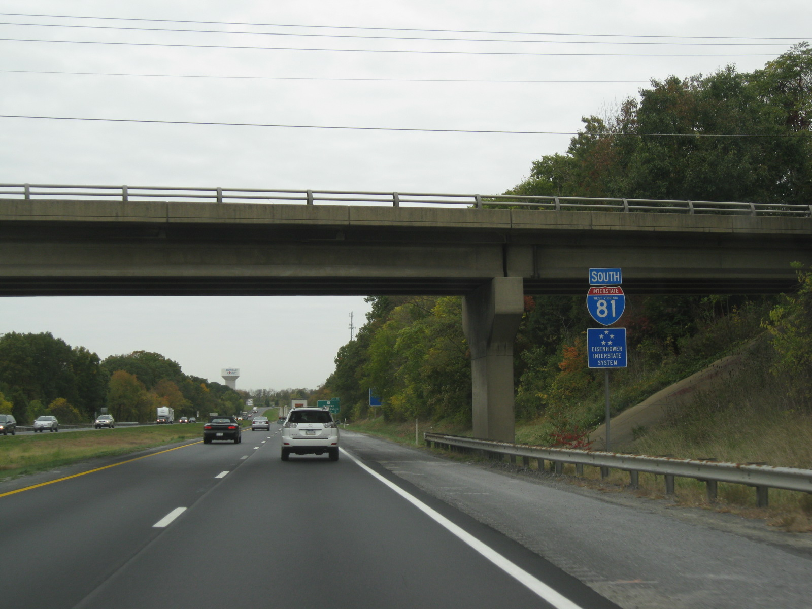 Southbound on Interstate 81 in West Virginia